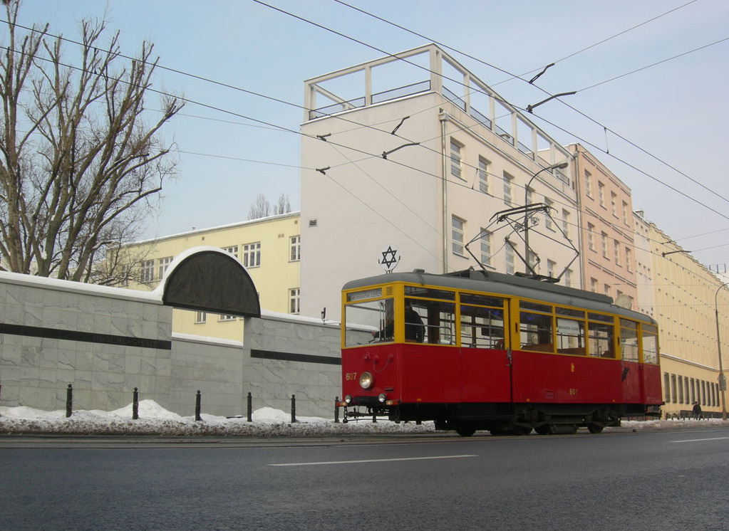 The ghetto tram front of the memorial of the former Umschlagplatz railway station in Warsaw, Poland; on the right - school building at Stawki 10 (during the war: Stawki 4) that during World War II hosted a hospital and later - a transfer prison of the Umschlagplatz complex